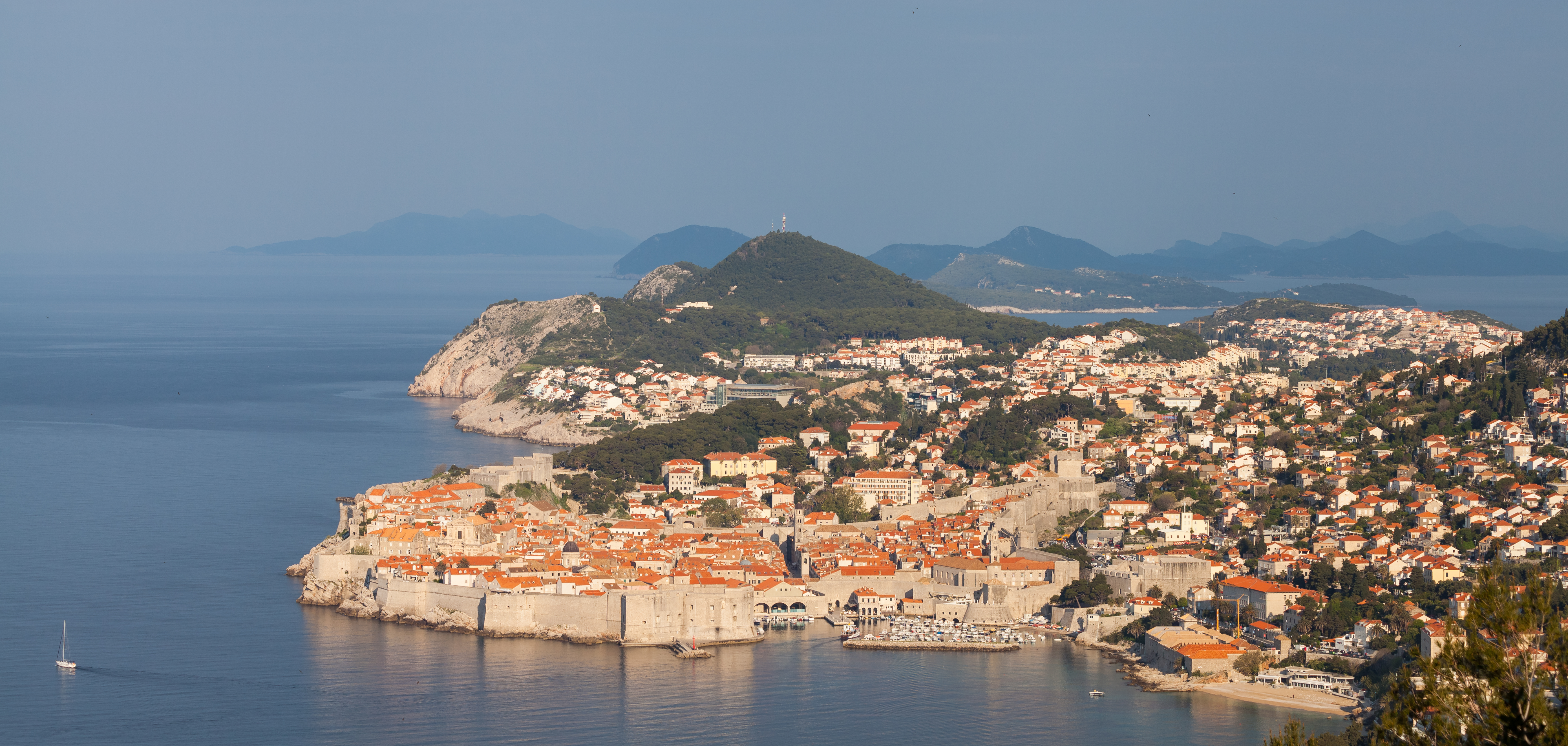 Panoramic view of the old city of Dubrovnik, Croatia